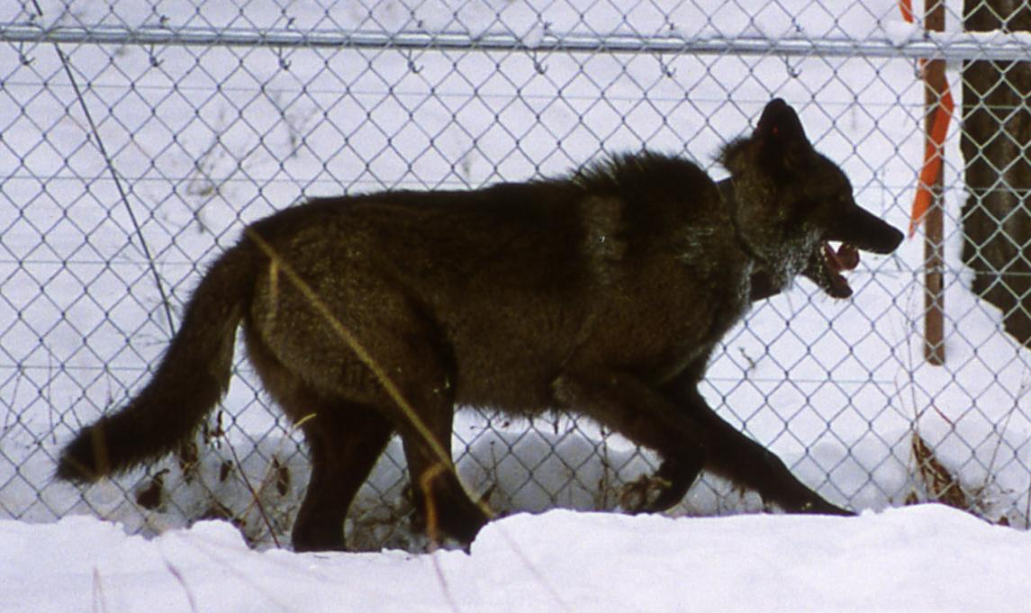 Wolf #33 in Crystal Creek pen